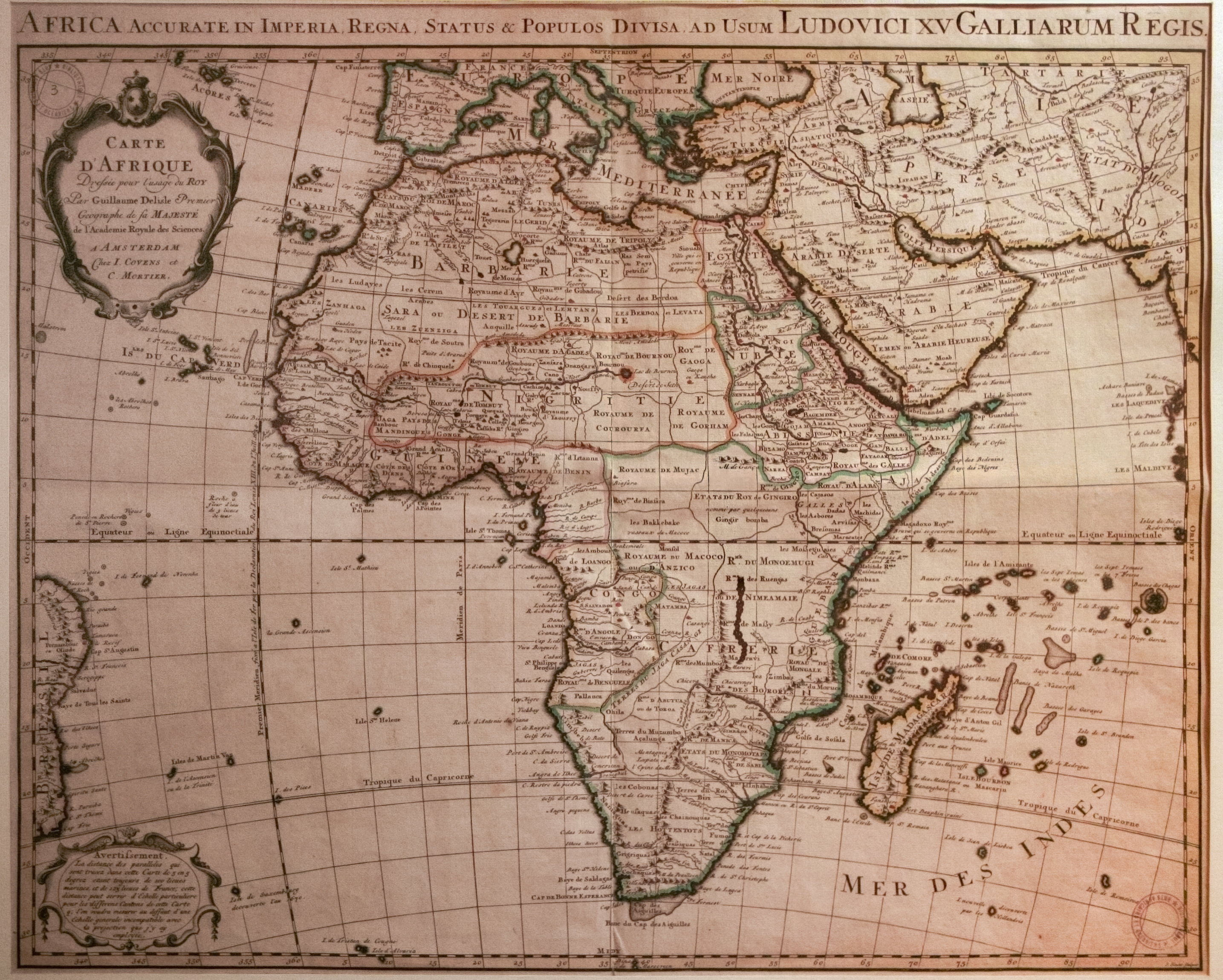 Map of Africa, made by Guillaume Delisle between 1725 and 1750